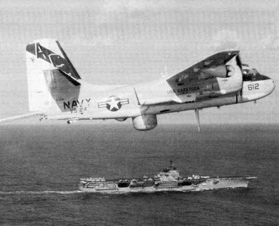 A U.S. Navy Grumman S-2G Tracker from Anti-Submarine Squadron VS-24 Duty Cats in flight. VS-24 was assigned to Carrier Air Wing 3 (CVW-3) aboard the aircraft carrier USS Saratoga (CVA-60), visible below, for a deployment to the Mediterranean Sea from 27 September 1974 to 19 March 1975.